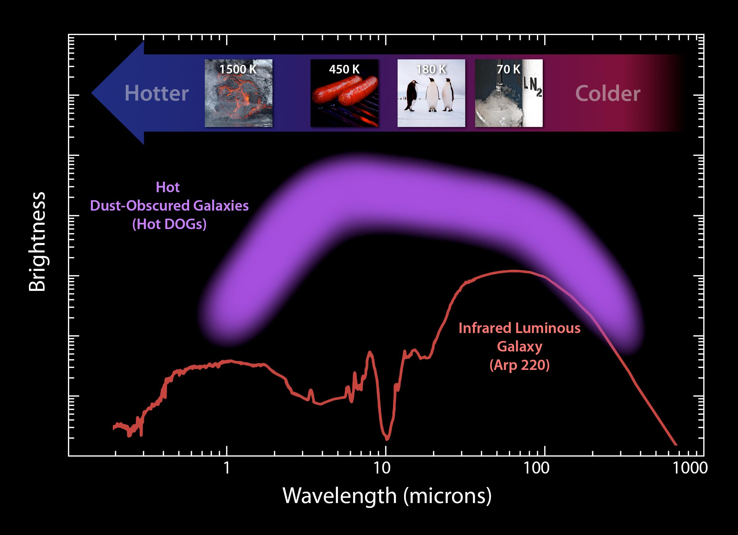 This plot illustrates the new population of "hot DOGs," or hot dust-obscured objects, found by WISE. The purple band represents the range of brightness observed for the extremely dusty objects. These powerful galaxies, which host active supermassive black holes at their cores, pour out enormous amounts of light at infrared wavelengths, while their visible light is blocked by dust. Visible light we see with our eyes has shorter wavelengths than one micron, while the longest wavelengths shown here come from observations with the Caltech Submillimeter Observatory on Mauna Kea, Hawaii. The red line shows the brightness profile, or spectral energy distribution, of a proto-typical infrared luminous galaxy. The small images near the top show more familiar objects at a range of temperatures from 70 Kelvin, or minus 330 degrees Fahrenheit, for liquid nitrogen, to 1,500 Kelvin, or 2,240 degrees Fahrenheit, for lava. The energy from hotter objects peaks at shorter wavelengths. The extreme WISE objects represented by the purple band are much brighter -- and peak at much shorter, or hotter, wavelengths -- than the typical infrared luminous galaxy, hence their nickname: hot dust-obscured galaxies or Hot DOGs.